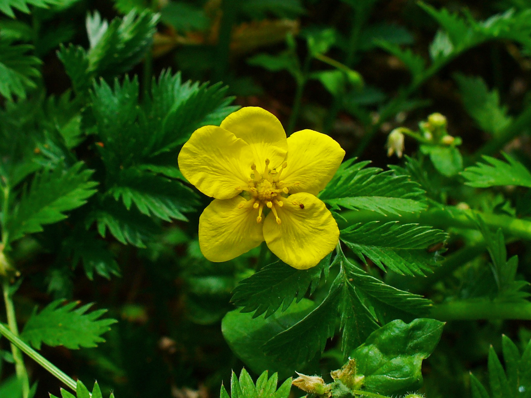 Potentilla anserina, Rosaceae, Common Silverweed, Silverweed Cinquefoil, flower.